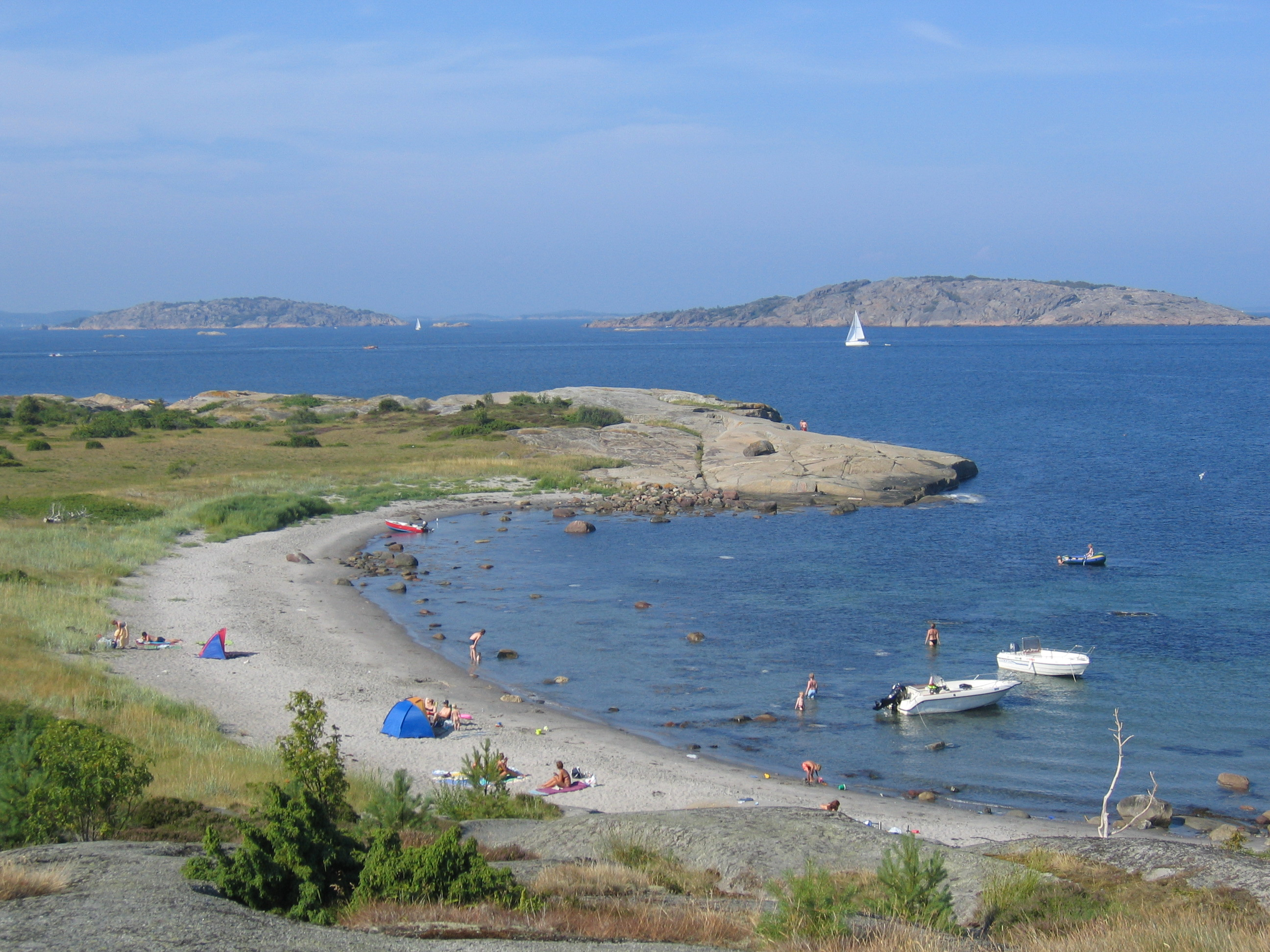 Tjøme, Sandø, skerry landscape, sandbeach, people sun bathing, summer. Utsikt mot N, øyene Ildverket og Bustein i bakgrunnen.